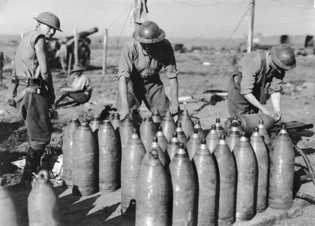 Members of the Australian Heavy Artillery capping 8 inch shells with '106' (instantaneous) fuses for the big gun on the left, at Verbranden Road. The 1st Australian Siege Battery took over this position on the morning of 26 September 1917 from 36th Battery, RGA, and before a gun could be put into action we suffered many casualties. This position being on a cross road, with a dump and dressing station alongside, was frequently shelled and bombed by the Hun (Germans). This position and the immediate vicinity received a 'daily' and also 'nightly' ration of shells and bombs. The Battery remained in the vicinity until 20 November 1917, and during that period in the one gun pit four different guns were put out of action by direct hits. Map reference Sheet 28 Edition 3 I 28A. Left to right: Gunner (Gnr) H. Andrews; Sergeant W. Jones (sitting in background); Gnr G. W. C. Whyte; Gnr A. Kimberley. Place made:Western Front: Western Front (Belgium), Ypres Area Ypres